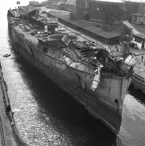 The Swedish coastal defence ship HMS Sverige being scrapped in Karlskrona, Sweden.